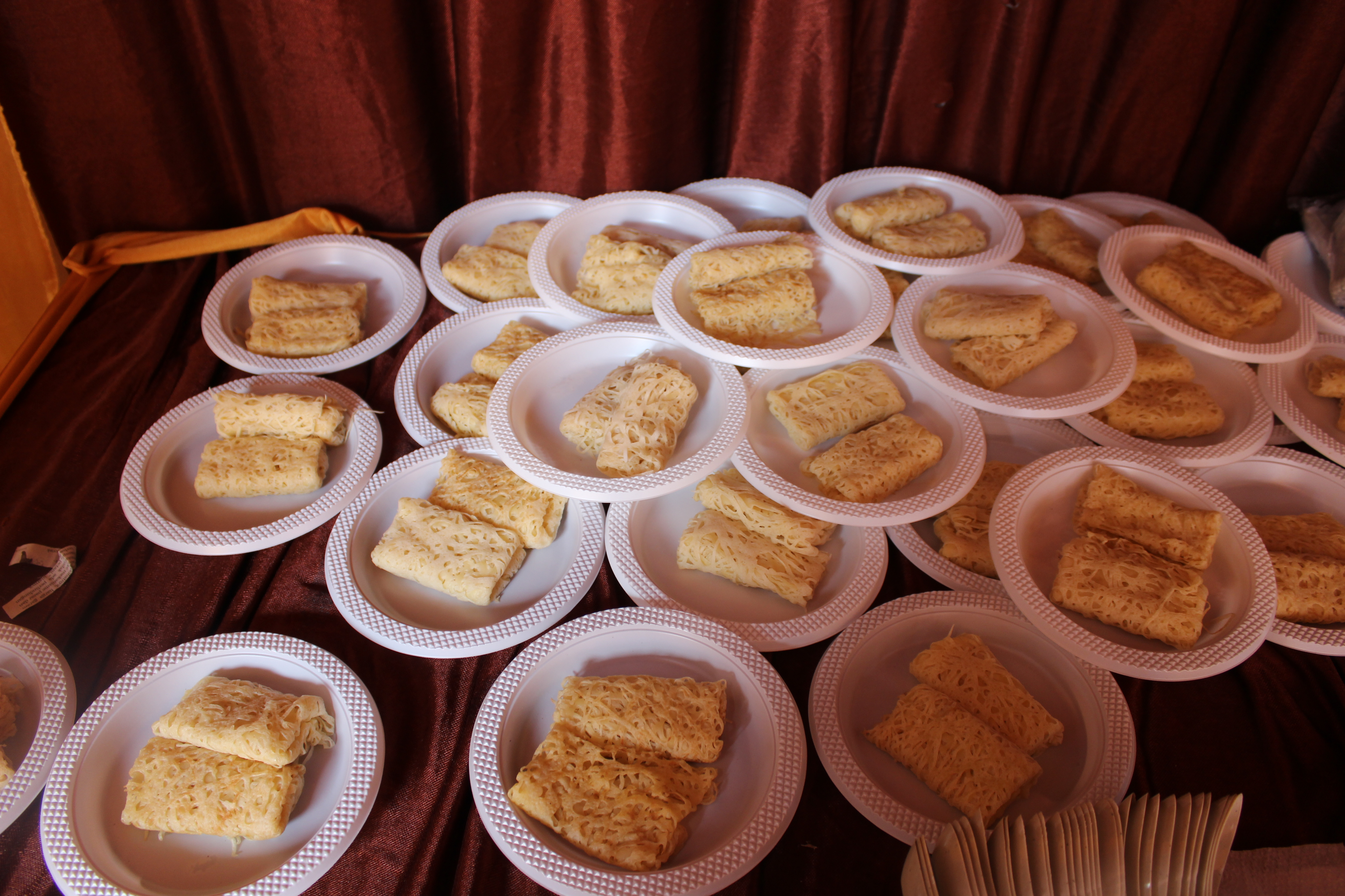 Roti jala, one of Indonesia most popular side dish.